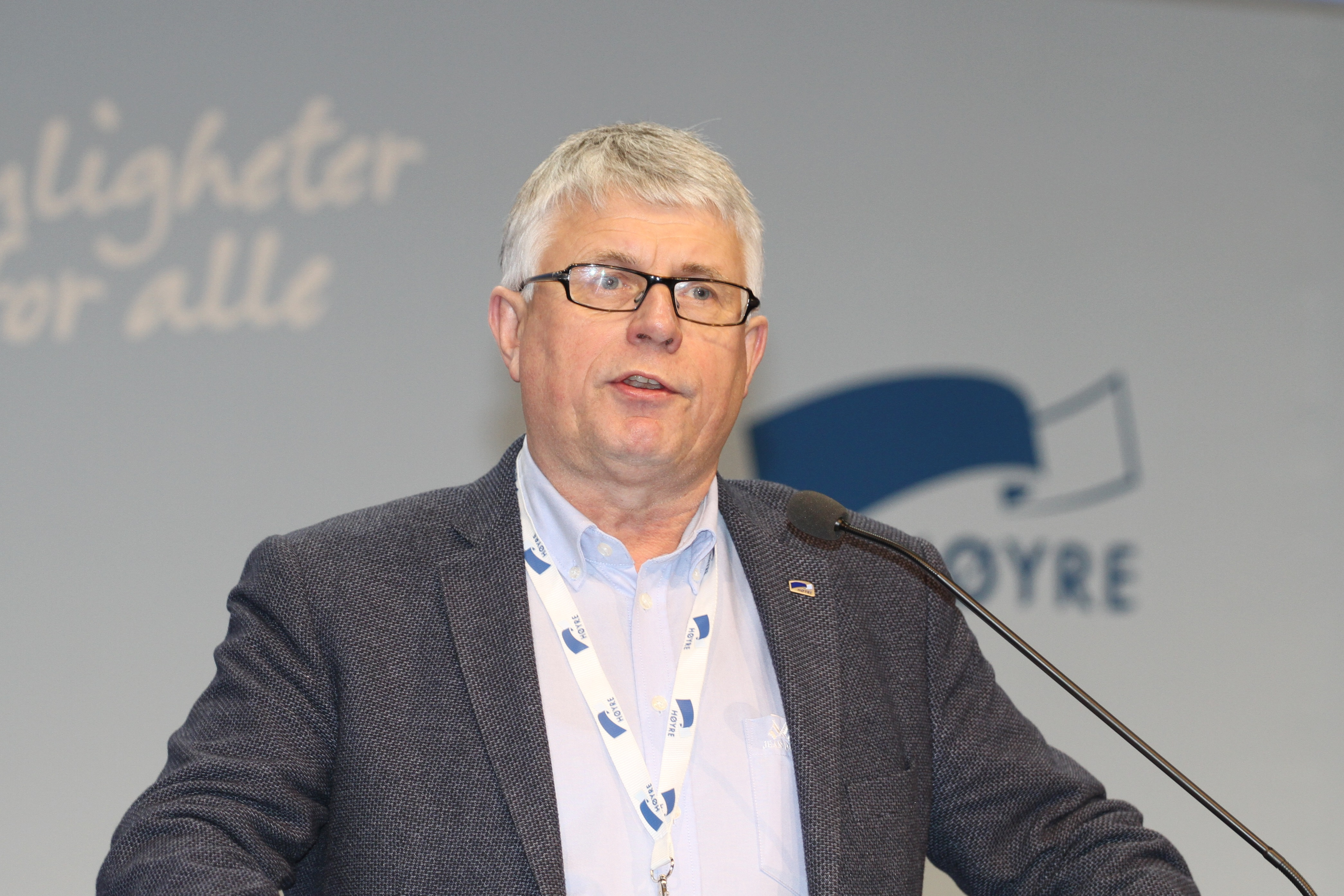 Arne Thomassen